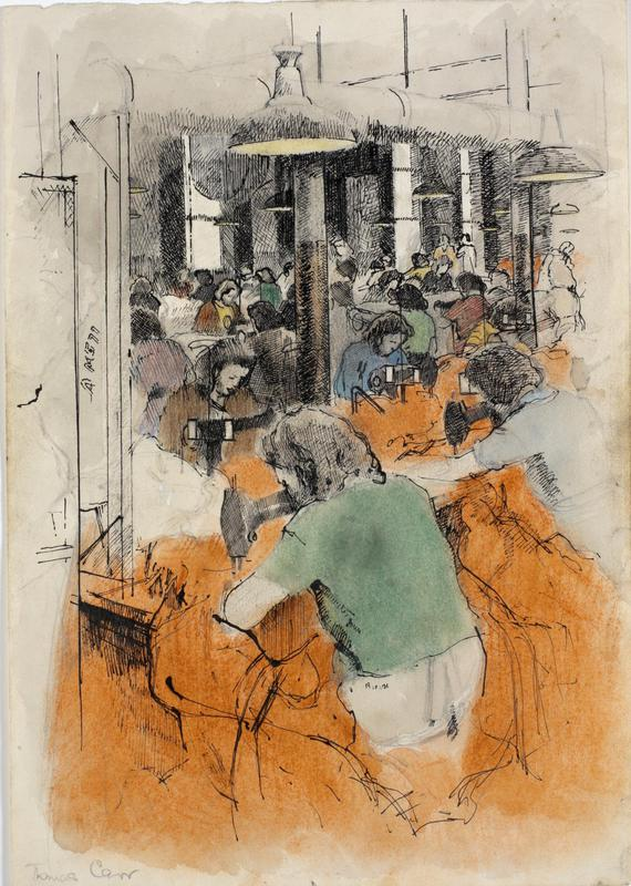 Awomen, foreground, sits, back to viewer, at a bench with a sewing machine surrounded by volumes of parachute silk.